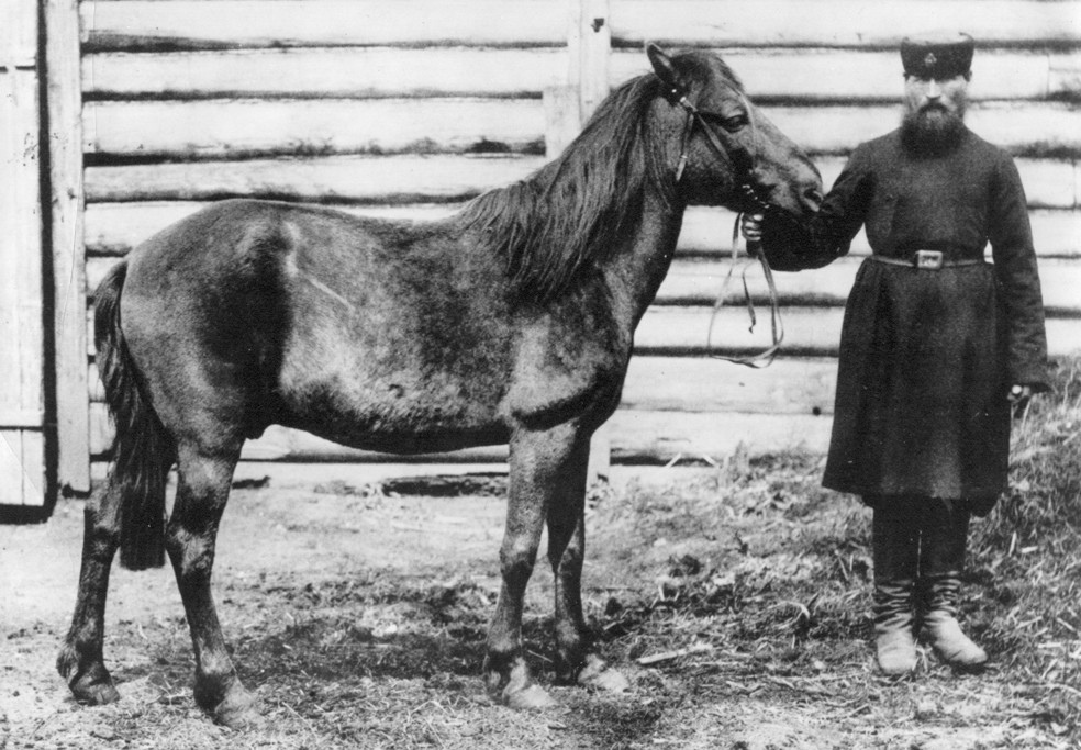 Tarpan at the Moscow zoo. This male tarpan was then 18 years old, dark grey with white spot on front left tibia. Mane was very long; the tail was cut by keepers. The tarpan was caught in 1866 on Zagradovsk steppe and lived until 1880 in Novovorontsovka, until it reached Moscow zoo on May 29th 1884. He was castrated from 3 years of age, and possibly not a pure specimen. His height at withers was 133 cm.